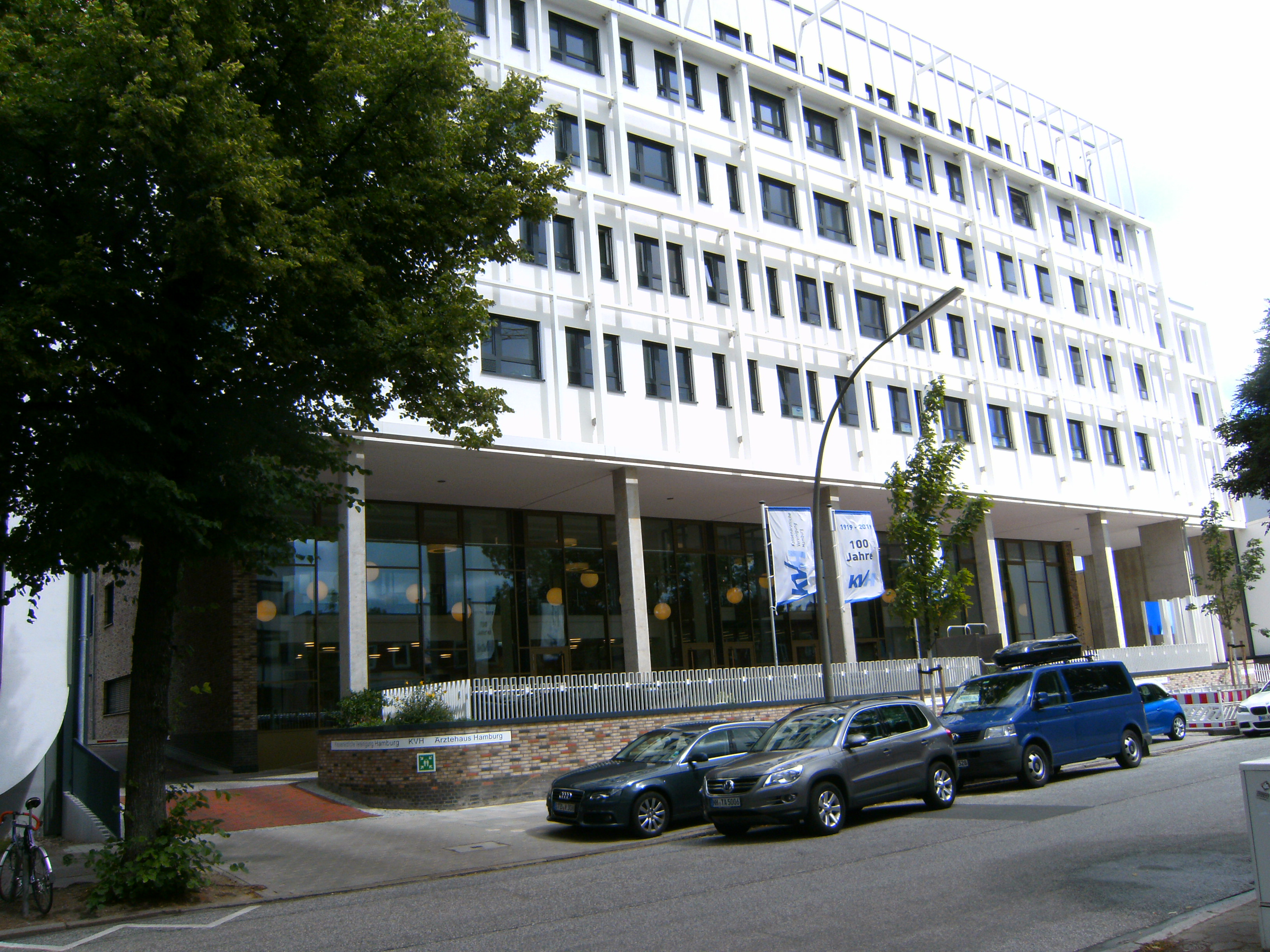 Hamburg, Germany, Humboldtstraße 56: New building of Kassenärztlichen Vereinigung Hamburg (physicians) of 2017, total view.